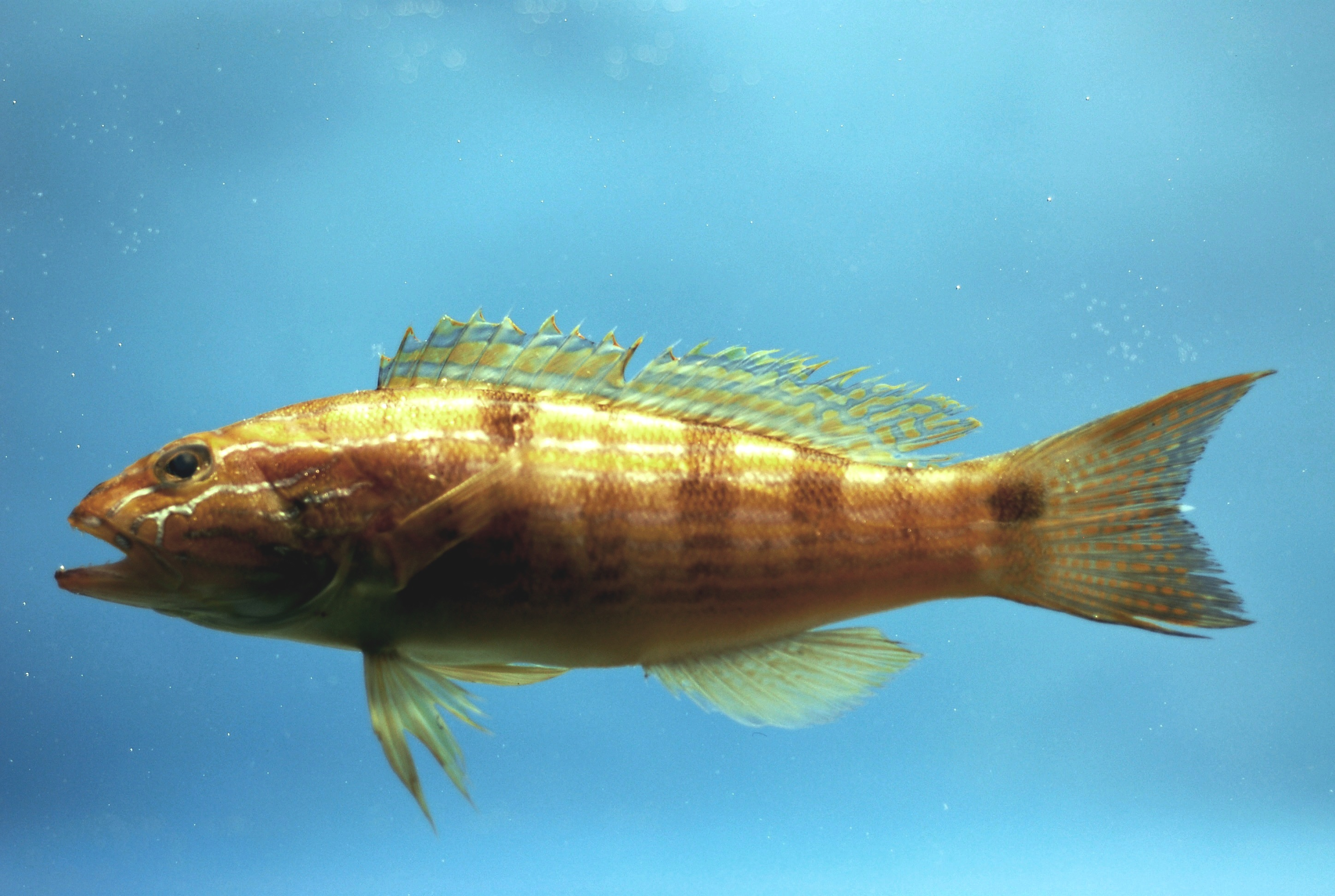 Diplectrum formosum from the Gulf of Mexico